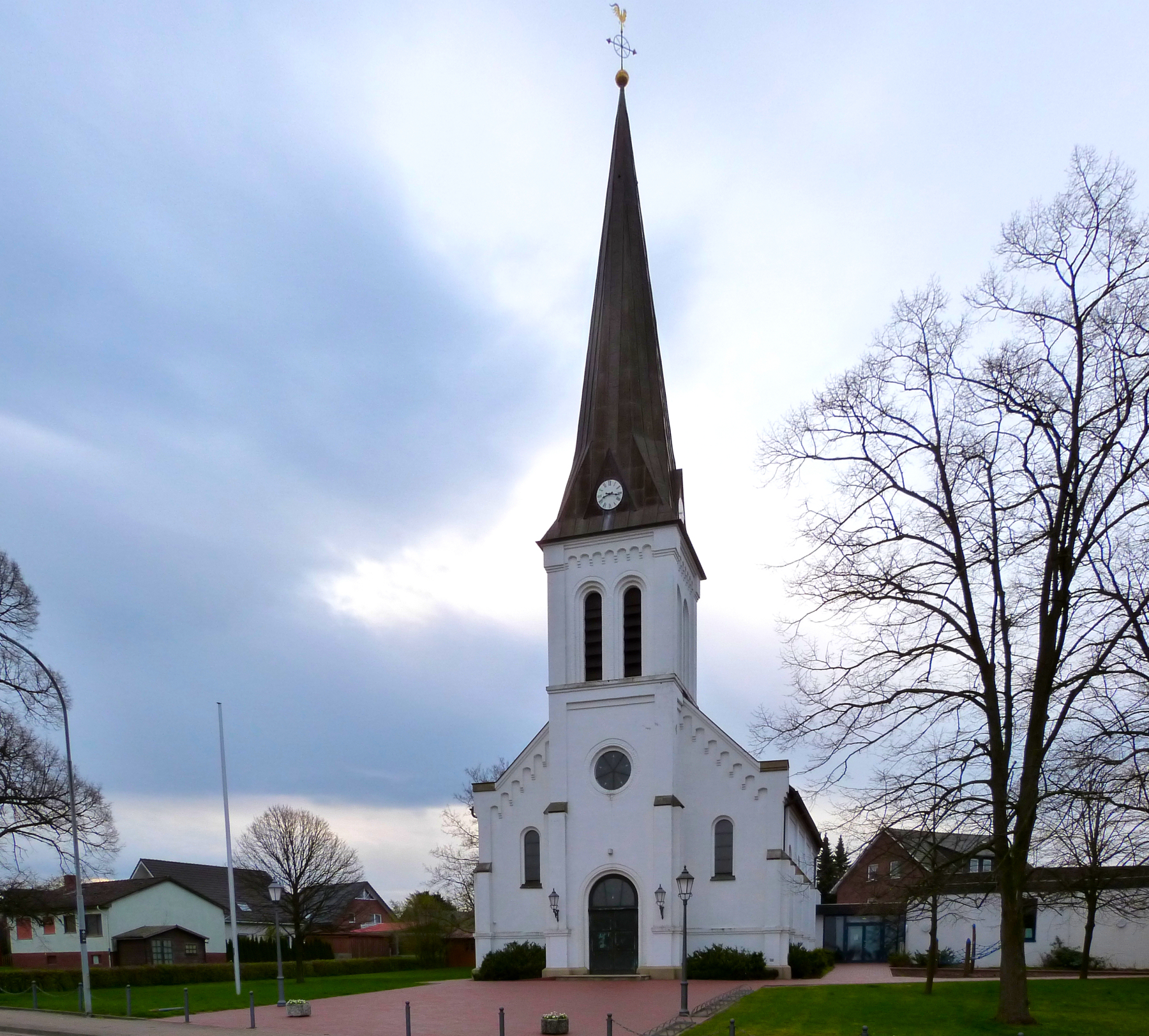 Martin-Luther-Church in the district Lohe of the city of Bad Oeynhausen This is a photograph of an architectural monument.